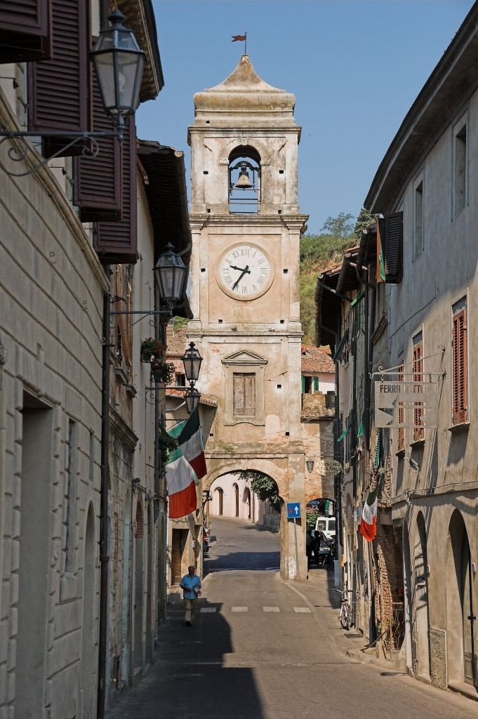 Palaia, the "torre civica"(the Town's Tower)